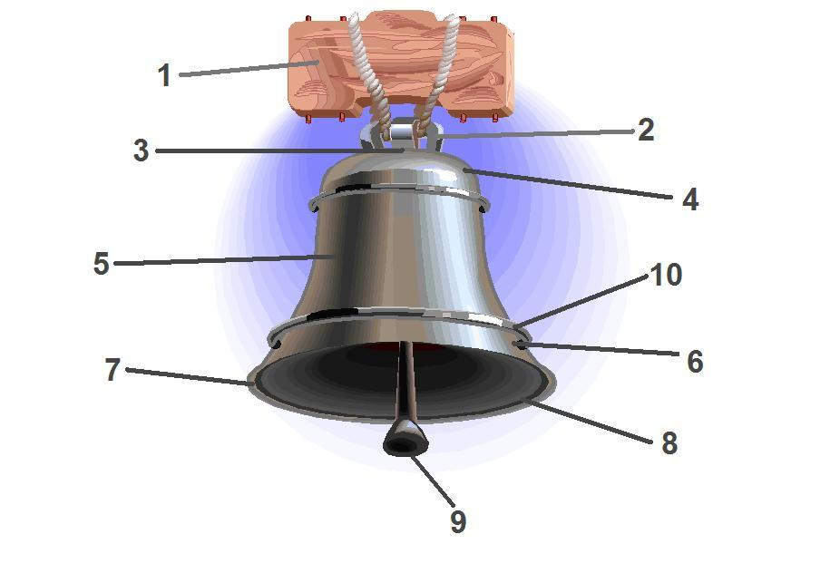 Parts of a bell: 1. yoke, 2. crown, 3. head, 4. shoulder, 5. waist, 6. sound ring, 7. lip, 8. mouth, 9. clapper, 10. bead line